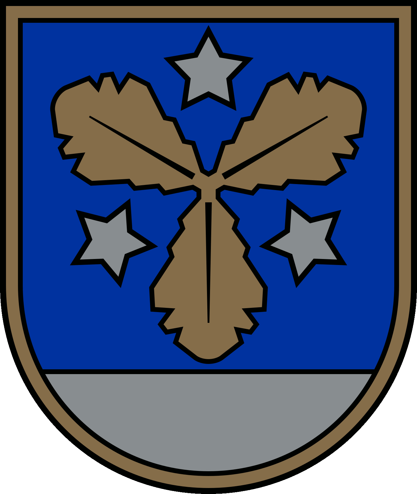 Coat of arms of Aizkraukle Municipality, Latvia